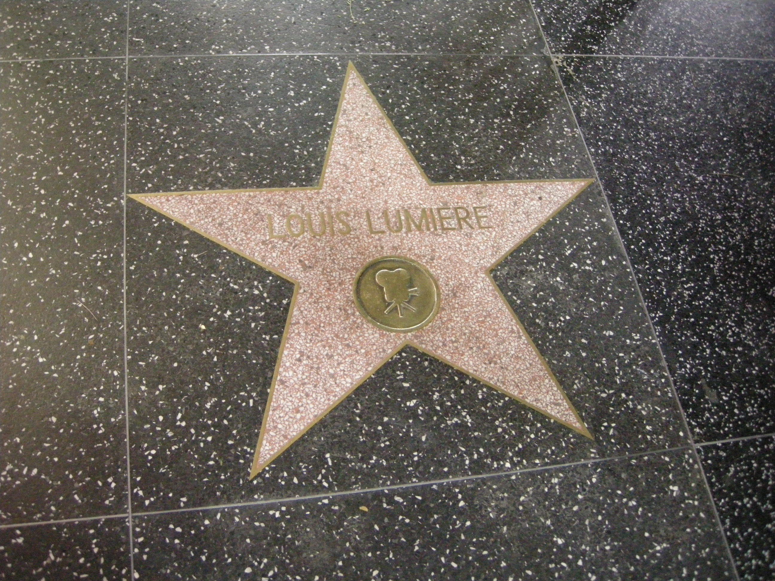 Walk of fame, louis lumiere